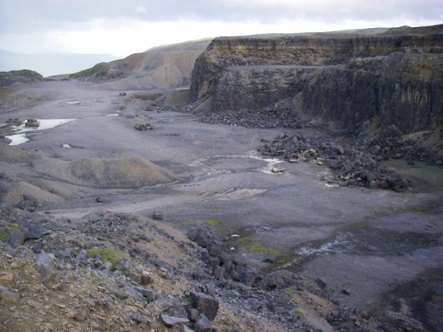 A view into Blaen Onneu Quarry. The place hasn't been worked since the 1980's and remains abandoned to wildlife, the occasional photographer and the odd scrambler bike. The geologist will find fine sections through the Abercriban Oolite near to the northern margin of the basin in which it was deposited 300 million years ago.